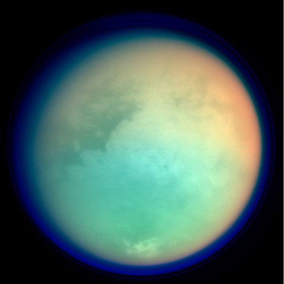 Photograph of the Saturn moon Titan in False Color, taken by the Cassini space probe with ultraviolet and infrared camera on 26 Oct. 2004. Original caption released with the image: "This image shows Titan in ultraviolet and infrared wavelengths. It was taken by Cassini's imaging science subsystem on Oct. 26, 2004, and is constructed from four images acquired through different color filters. Red and green colors represent infrared wavelengths and show areas where atmospheric methane absorbs light. These colors reveal a brighter (redder) northern hemisphere. Blue represents ultraviolet wavelengths and shows the high atmosphere and detached hazes. Titan has a gigantic atmosphere, extending hundreds of kilometers above the surface. The sharp variations in brightness on Titan's surface (and clouds near the south pole) are apparent at infrared wavelengths. The image scale of this picture is 6.4 kilometers (4 miles) per pixel. The Cassini-Huygens mission is a cooperative project of NASA, the European Space Agency and the Italian Space Agency. The Jet Propulsion Laboratory, a division of the California Institute of Technology in Pasadena, manages the Cassini-Huygens mission for NASA's Office of Space Science, Washington, D.C. The Cassini orbiter and its two onboard cameras, were designed, developed and assembled at JPL. The imaging team is based at the Space Science Institute, Boulder, Colo."